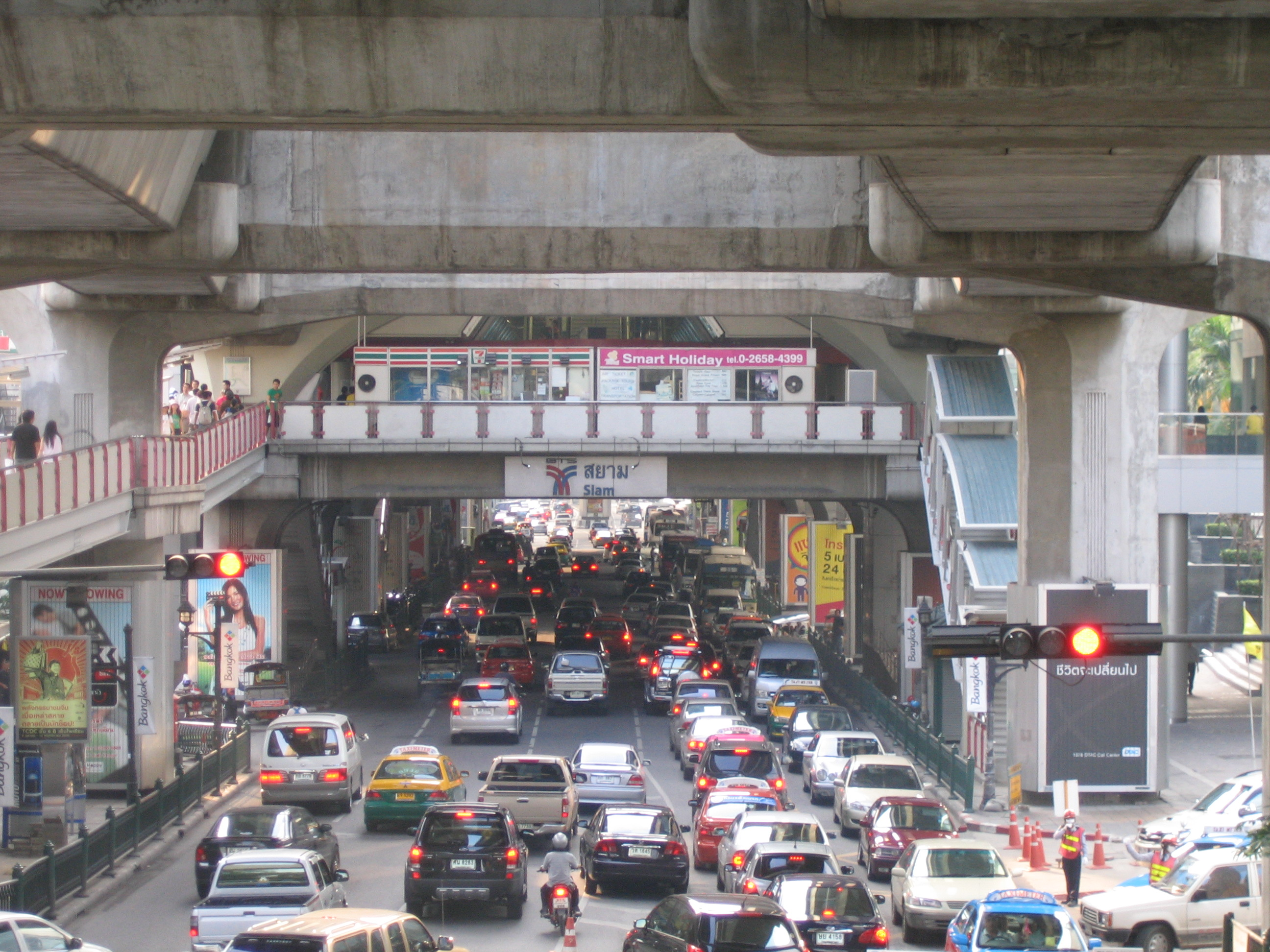 A view of Siam BTS station and Rama I Road in Bangkok from a footbridge to the south.